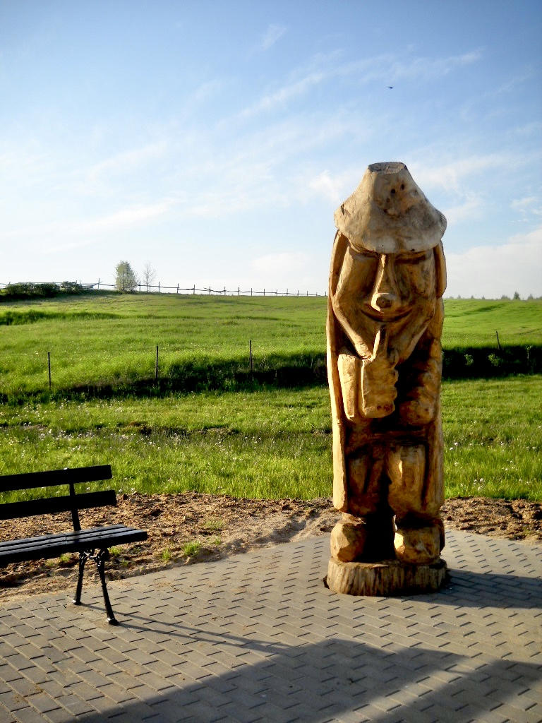 Statue of Kashubian mytical personage Damk located on the „Poczuj Kaszubskiego Ducha” tourist route (Miłoszewo, Poland).